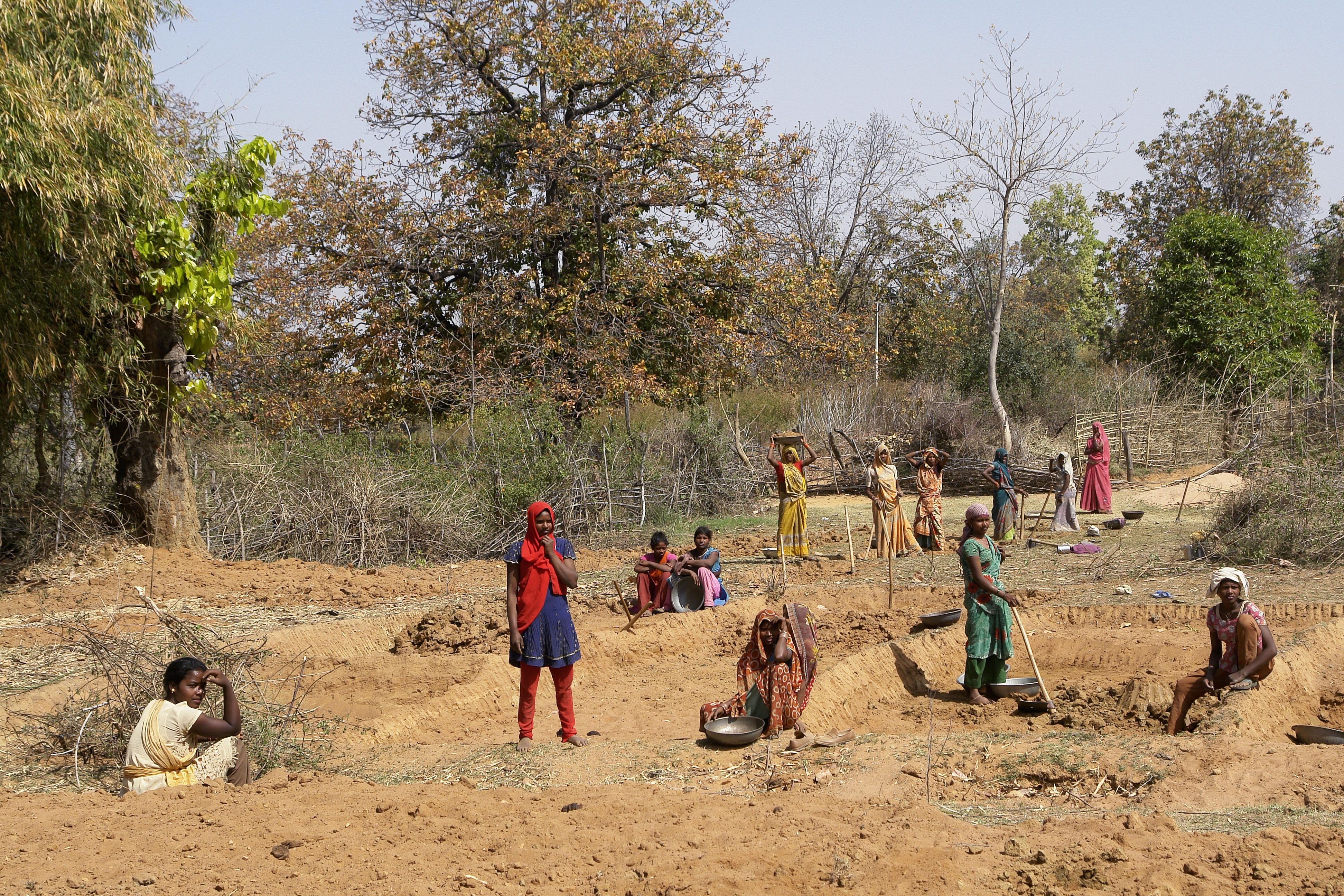 Women working on road repairing, Umaria district, Madhya Pradesh, India.